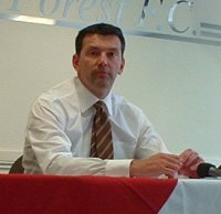 Nigel Doughty pictured at the Nottingham Forest fans forum on 06/06/05. Attribution